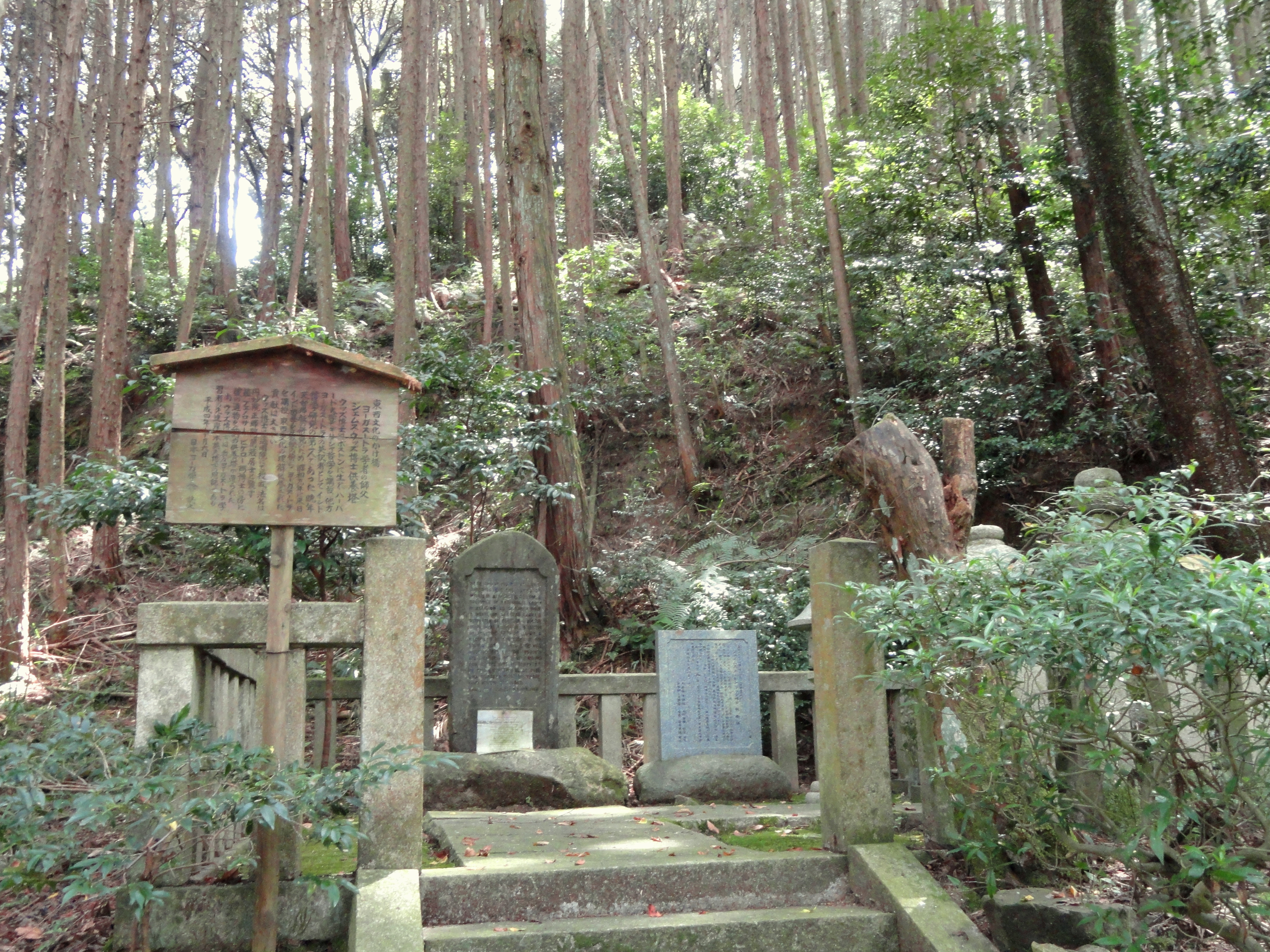 William Sturgis Bigelow's grave, in the graveyard of Homyoin temple (法明院), Otsu, Shiga, Japan.